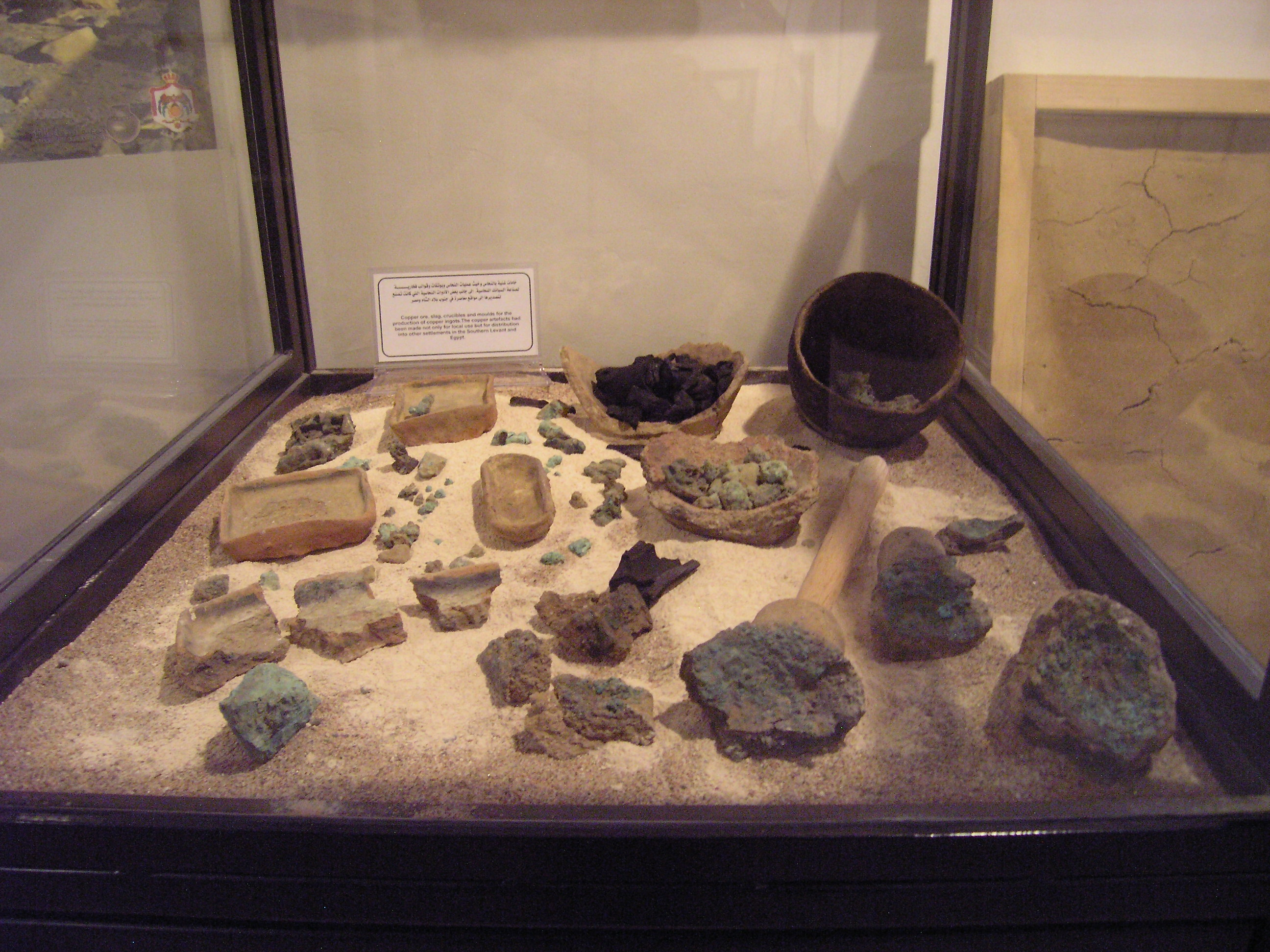 Aqaba Archaeological Museum; metallurgical finds from Tall Hujayrat al-Ghuzlan; Copper ore, slag, crucibles and moulds for the production of copper ingots; Chalkolithic